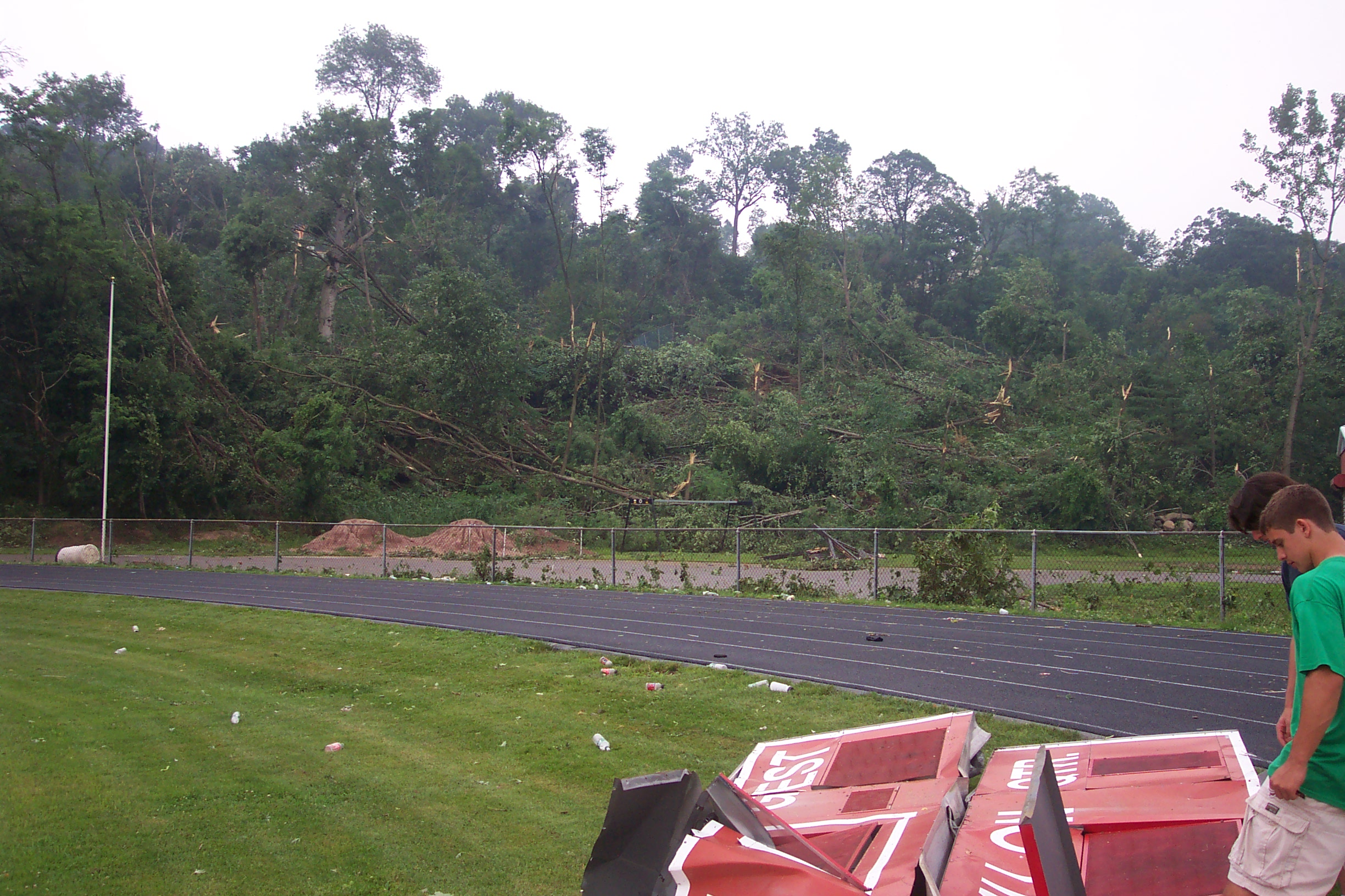 I took this picture after the tornado affected Westchester in Rockland County, New York.